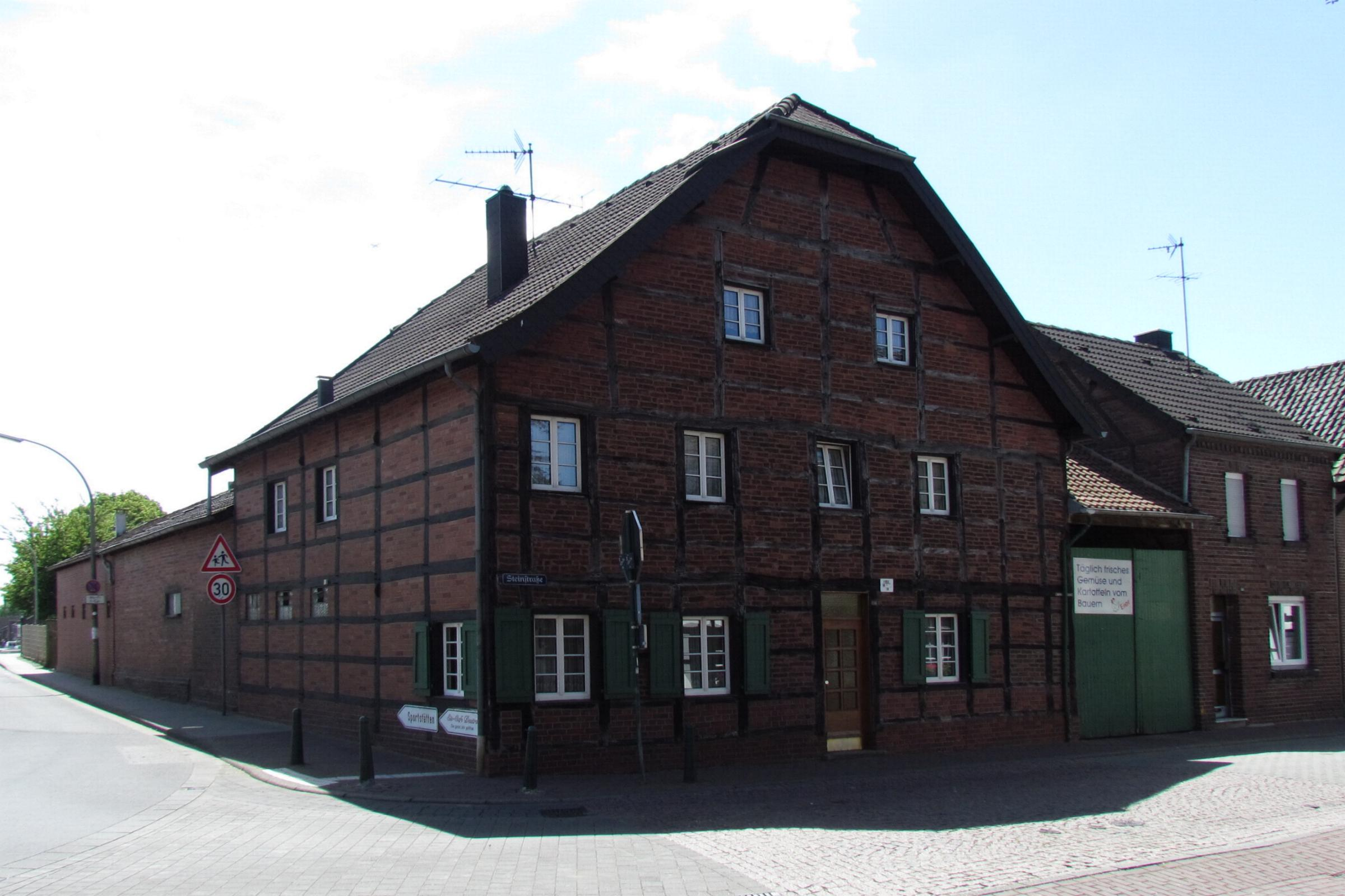 This is a photograph of an architectural monument.It is on the list of cultural monuments of Korschenbroich